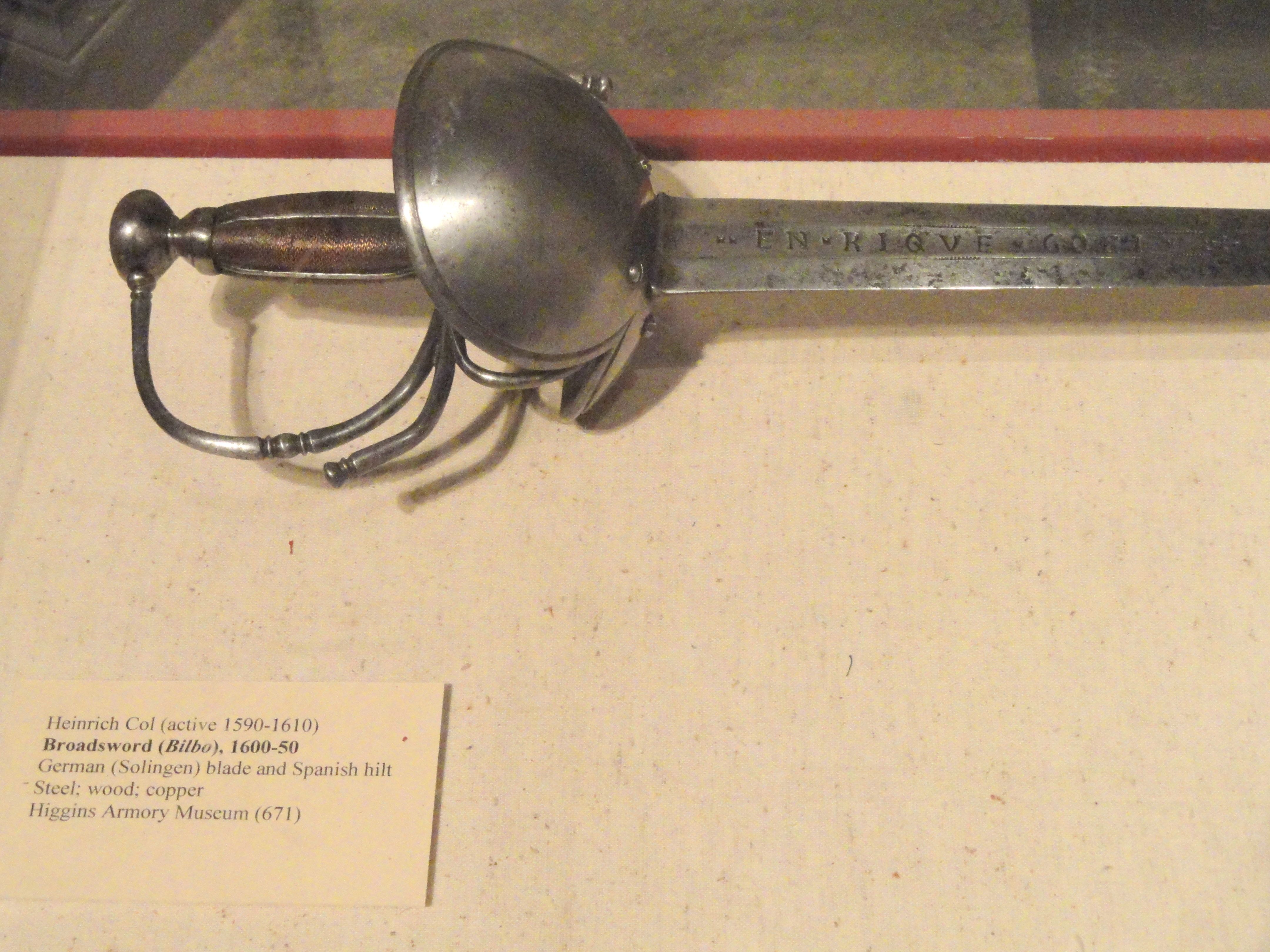 Exhibit in the Higgins Armory Museum, 100 Barber Avenue, Worcester, Massachusetts, USA. The museum permitted photography without any restriction, both in writing and when I asked verbally.